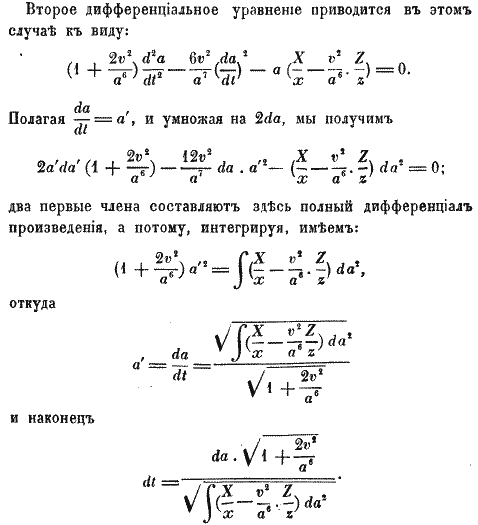 The last page of the article О движении свободной жидкой массы, 1867 (Vasily Zinger, 1836-1907)